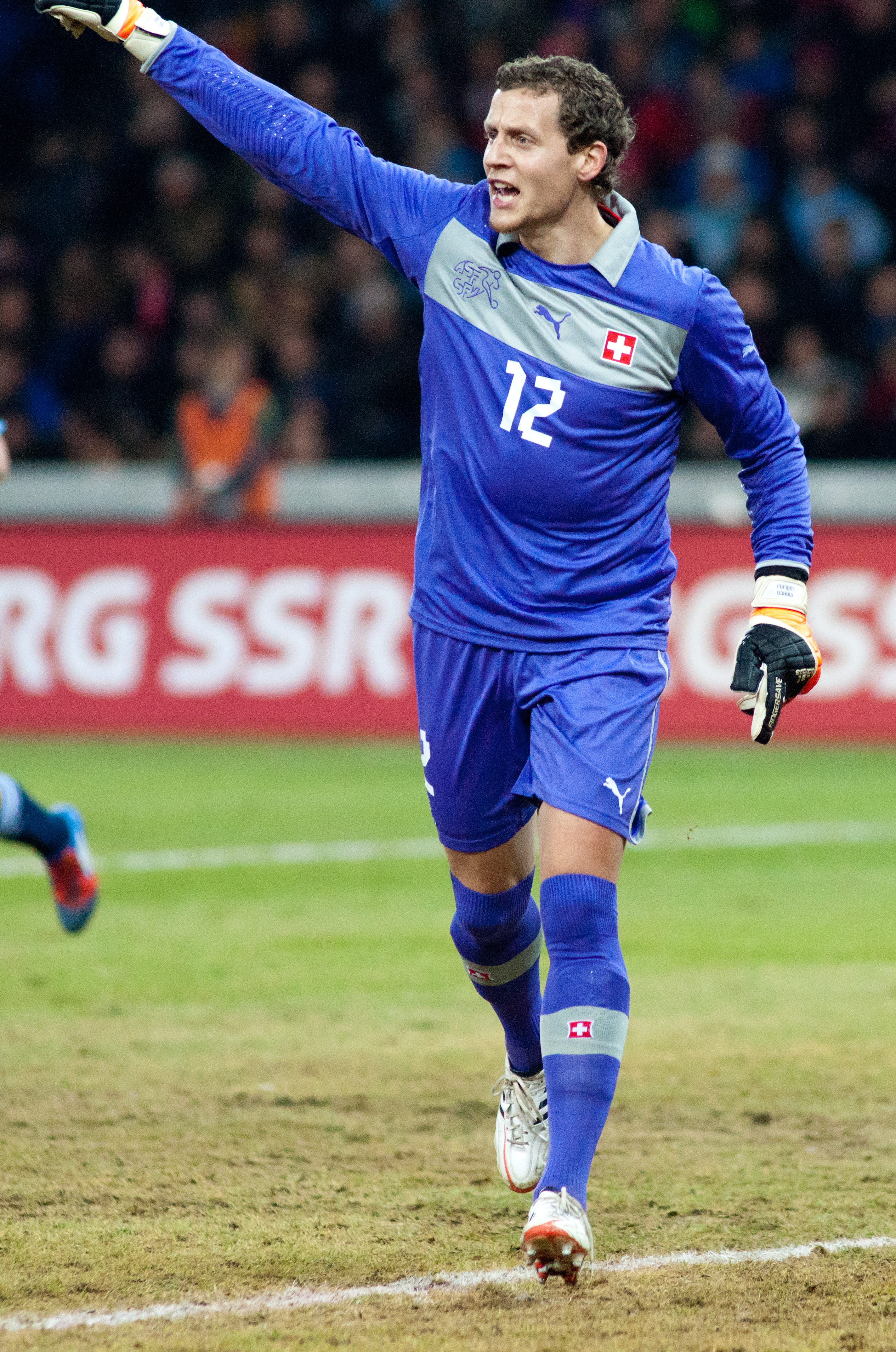 The making of this document was supported by Wikimedia CH. (Submit your project!) For all the files concerned, please see the category Supported by Wikimedia CH. Switzerland vs. Argentina, 29th February 2012